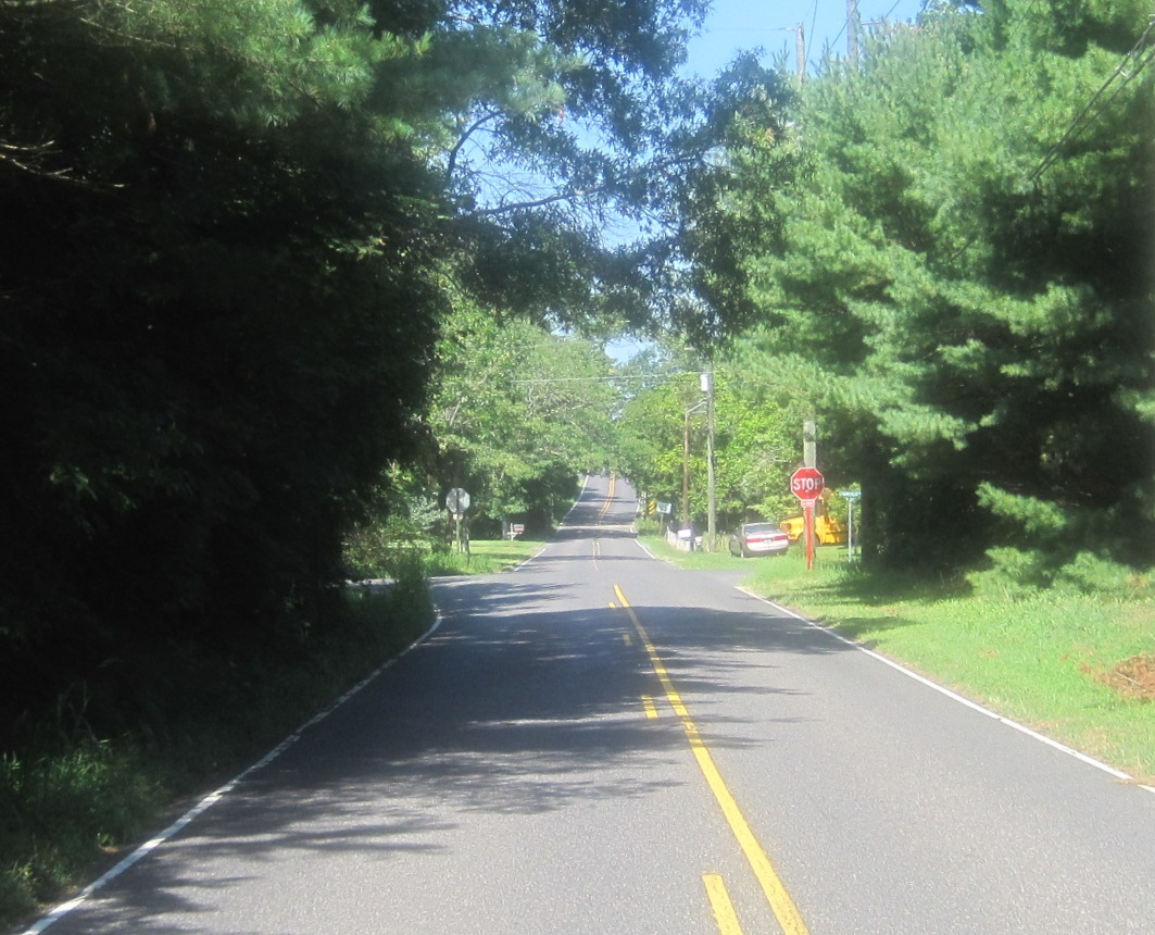 Photo showing Sandtown, New Jersey, an unincorporated community within Southampton Township. Photo taken along westbound New Freedom Road approaching Chairville Road.